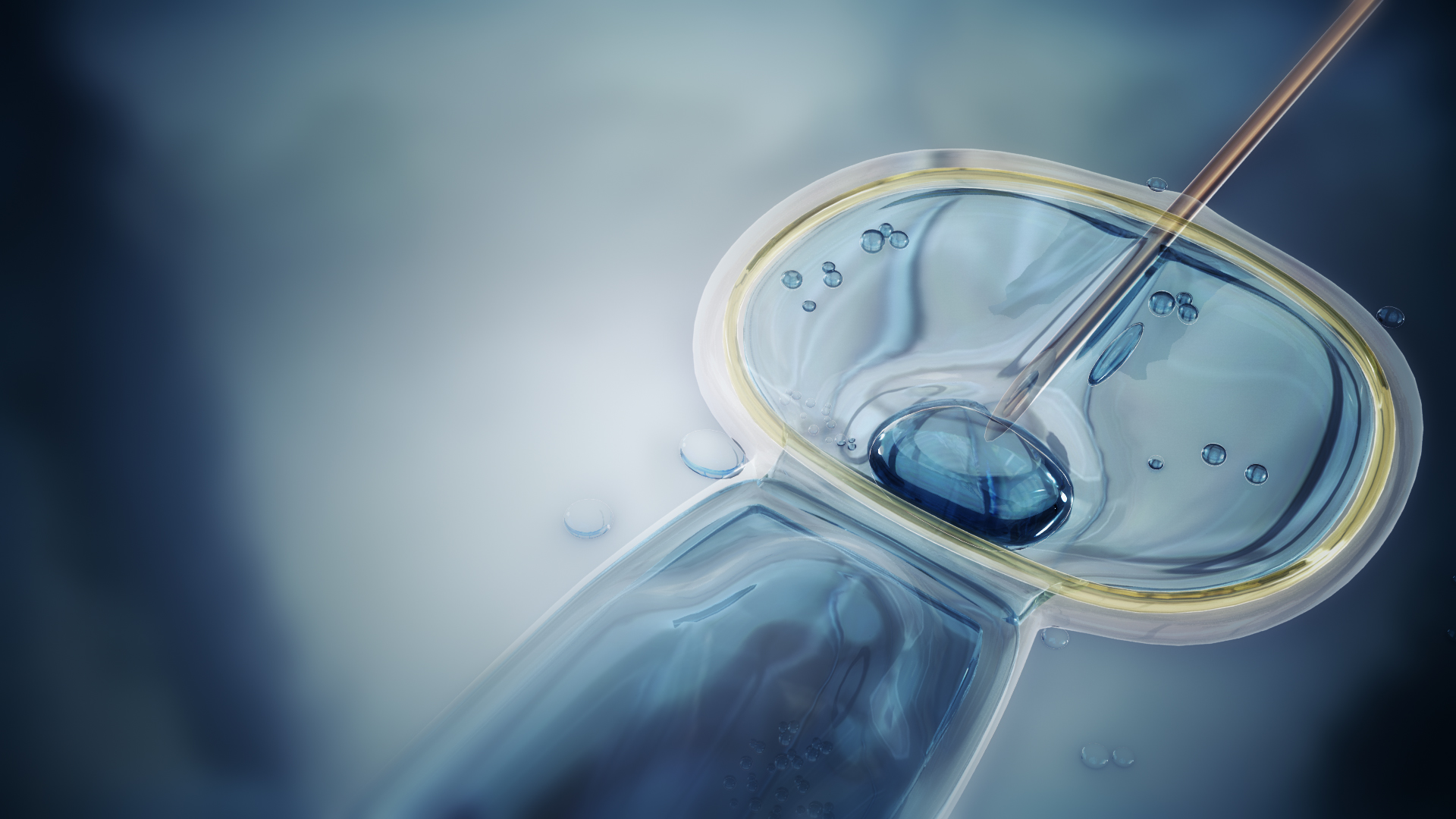 In-vitro fusion of sperm and egg.